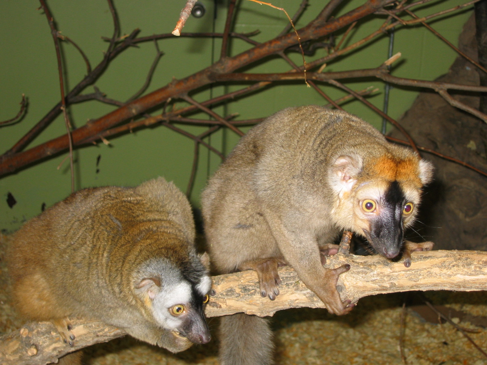 Two primates at Edmonton Zoo.